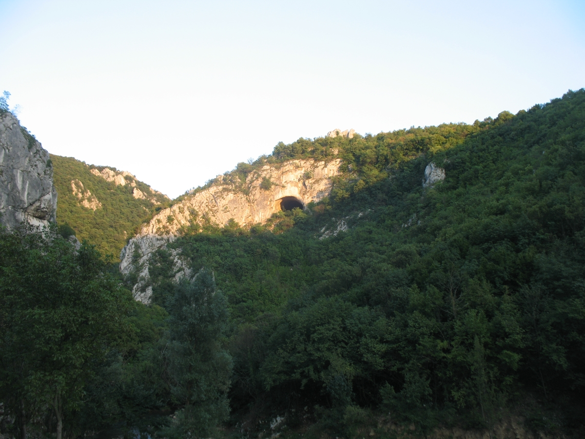 Krstata stena (Rock of the Cross) and entrance to a cave,below Petrus fortress viewed from Sveti Jovan Glavosek near Paraćin,Serbia.